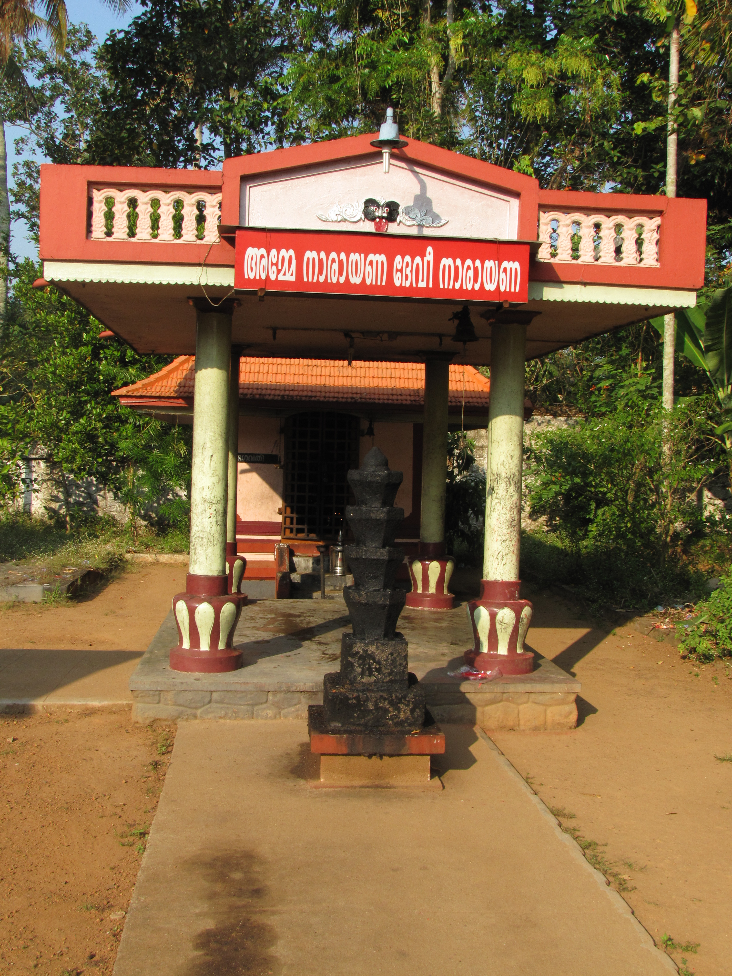 Bhagavathi idol in Veroor Sri Dharmashastha Temple